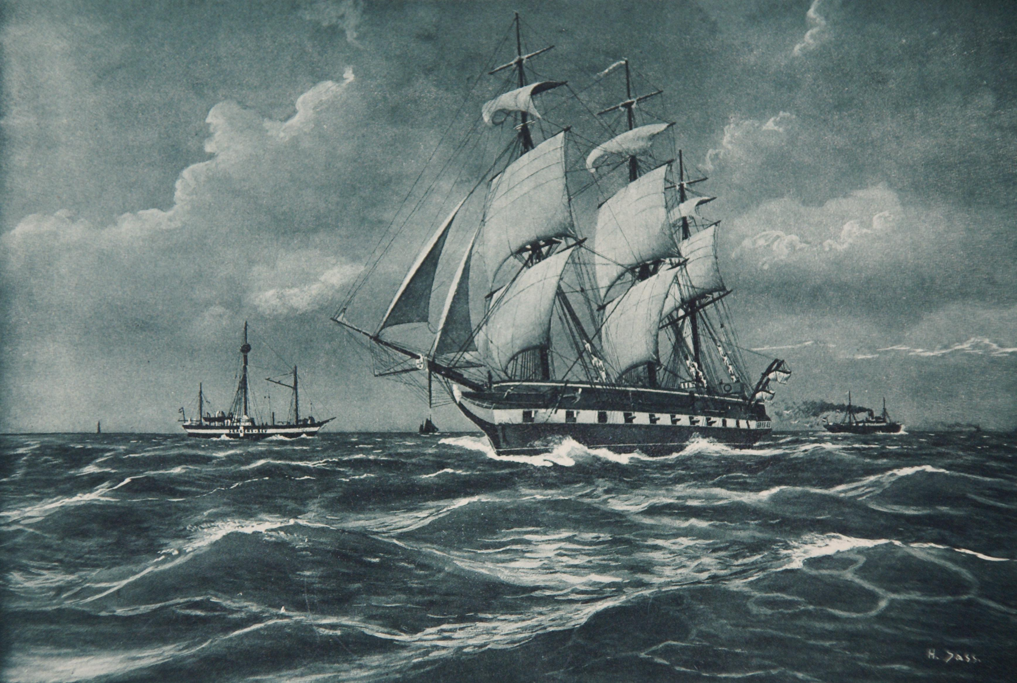 S.M.S. Niobe